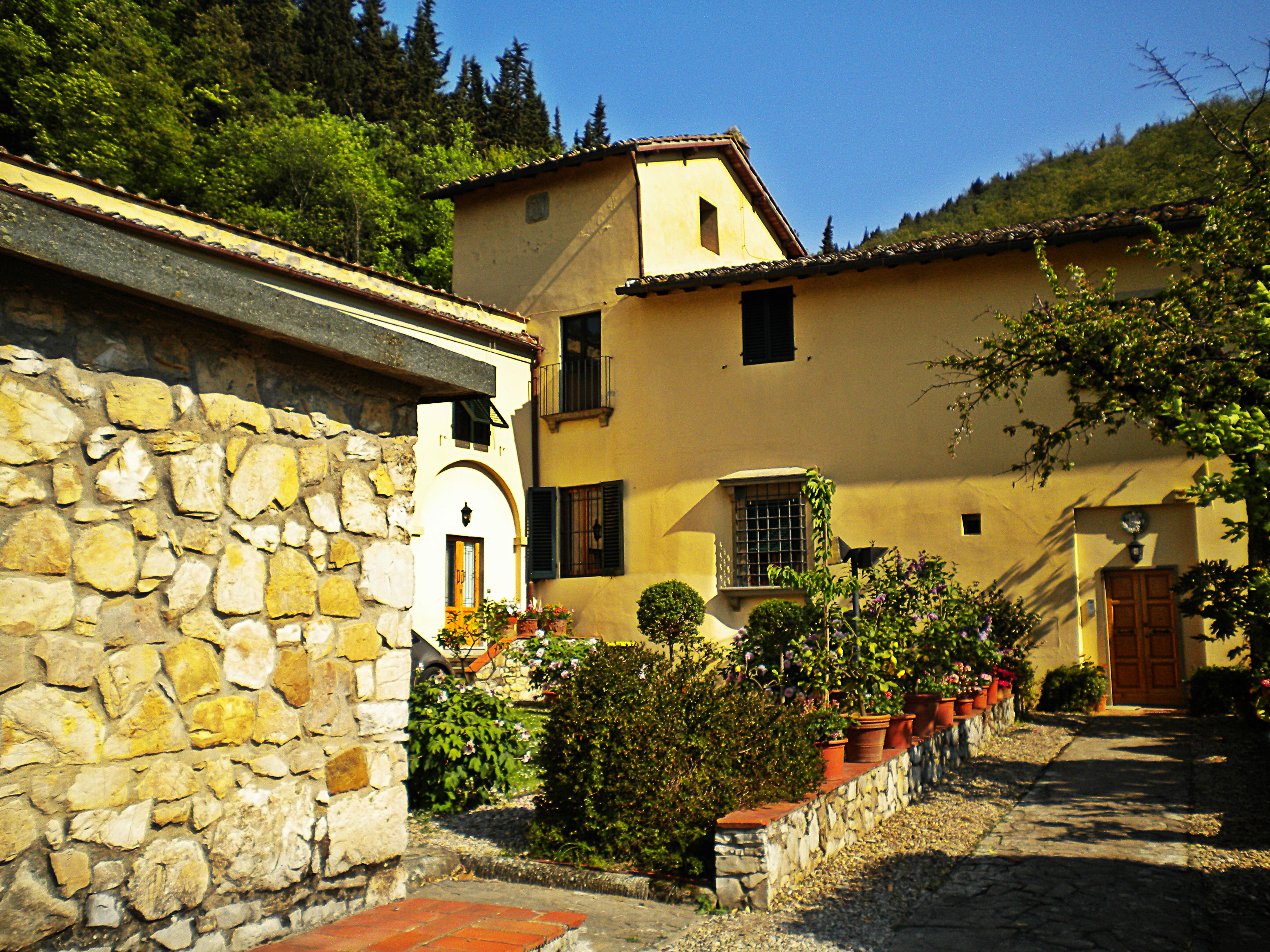 the garden of the closter